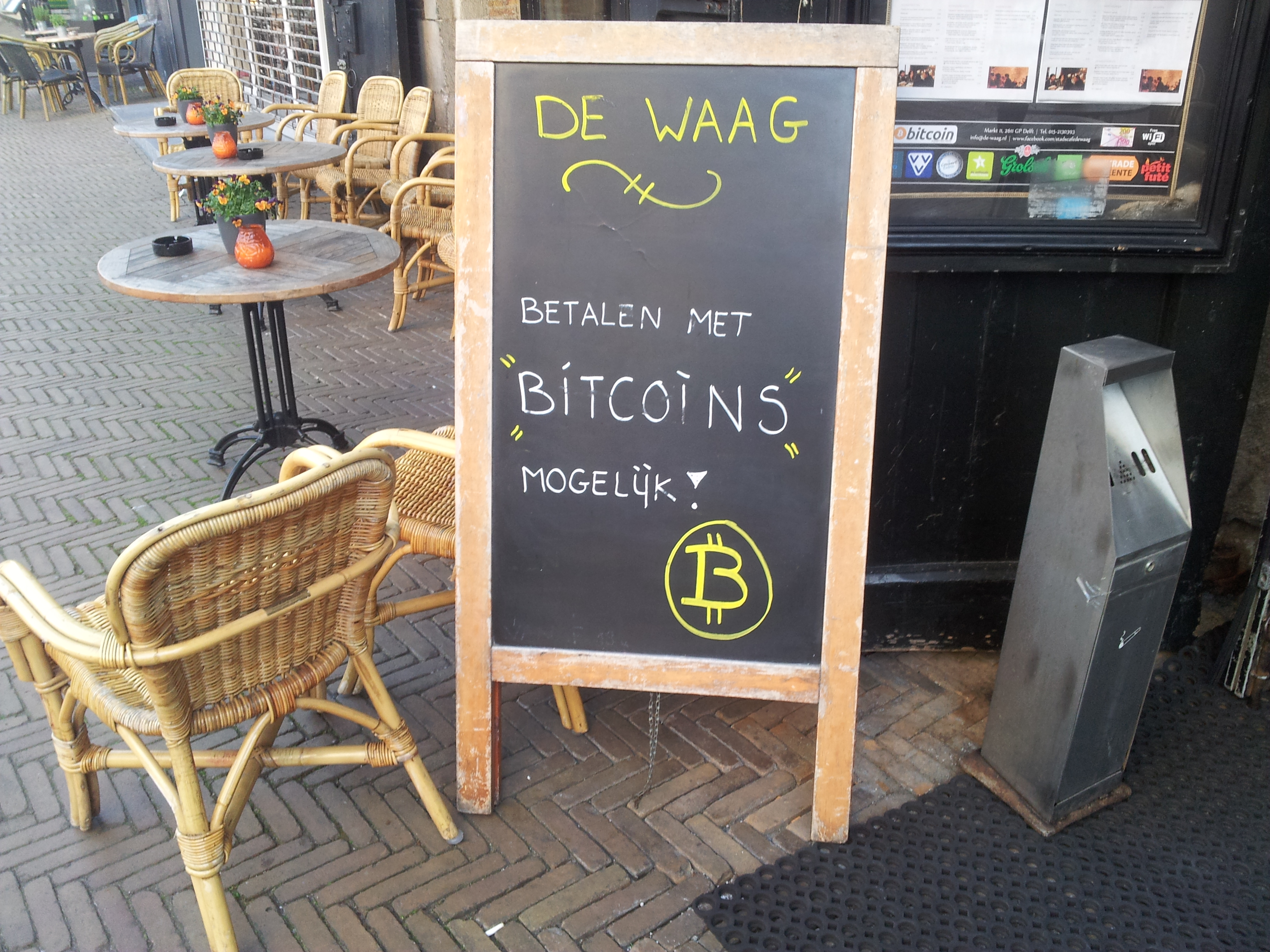 Bitcoins were accepted in stadscafé De Waag in Delft as of 2013.